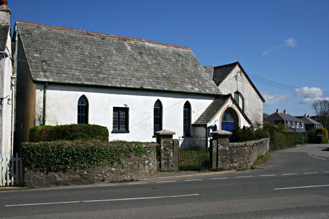 Methodist Church at Bray Shop There is a notice on the wall outside the church of a request for planning permission to turn this into a private residence.